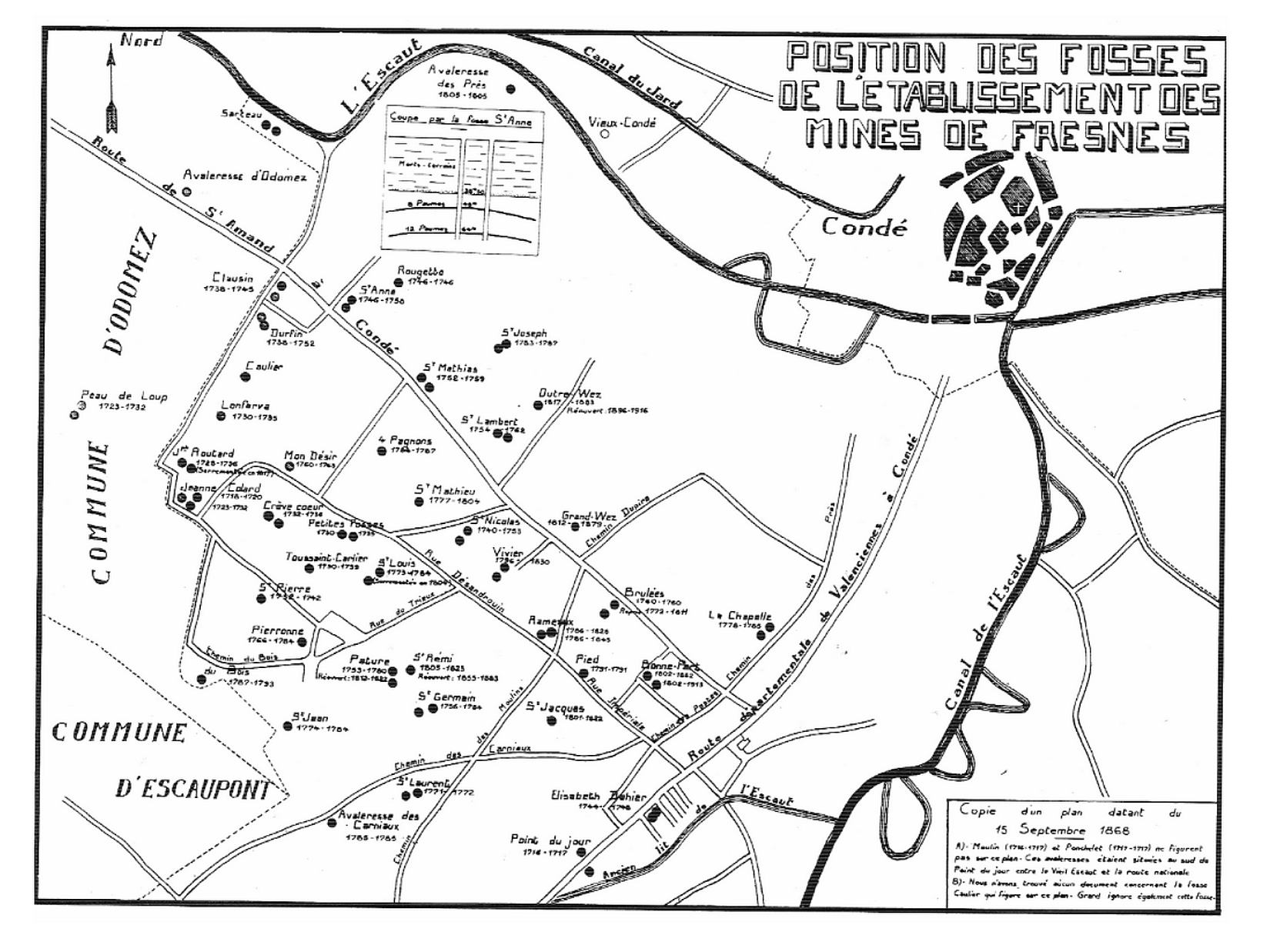 Shaft of mine in 1868 at Fresnes-sur-Escaut, France.